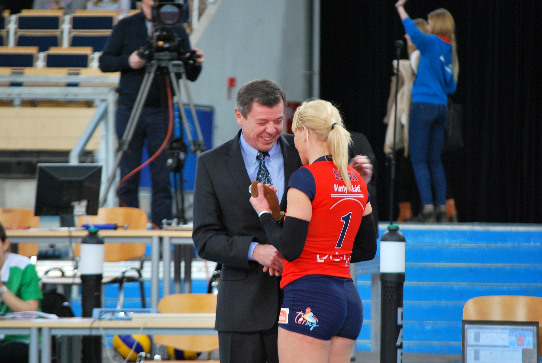 Magdalena Śliwa gets MVP, January 2015